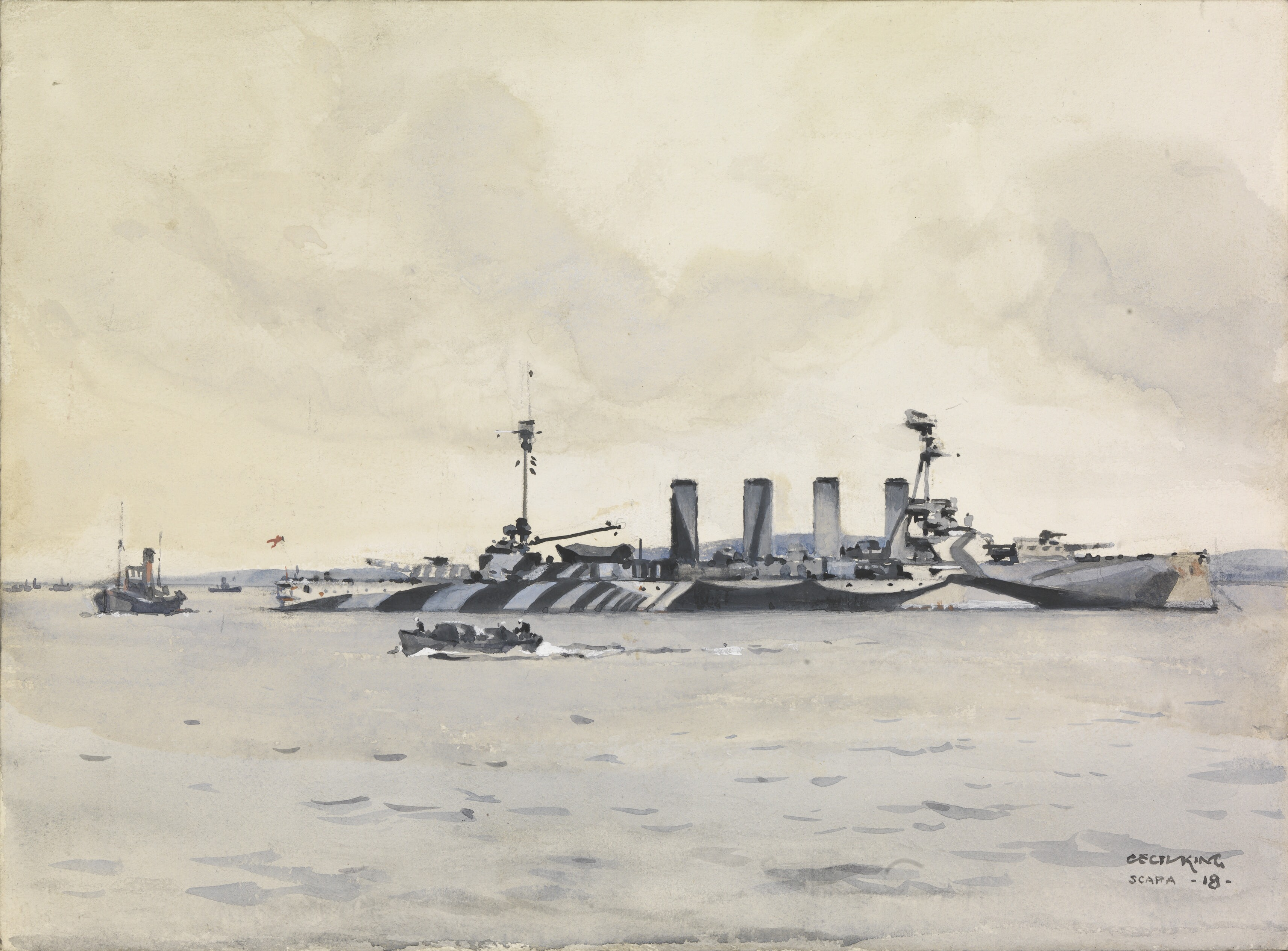 HMS Minotaur Dazzled, Scapa image: a starboard beam view of a warship at anchor, dazzle painted in black and white. A tug is off the stern of the ship, and in the foreground a tender is moving away from the ship.